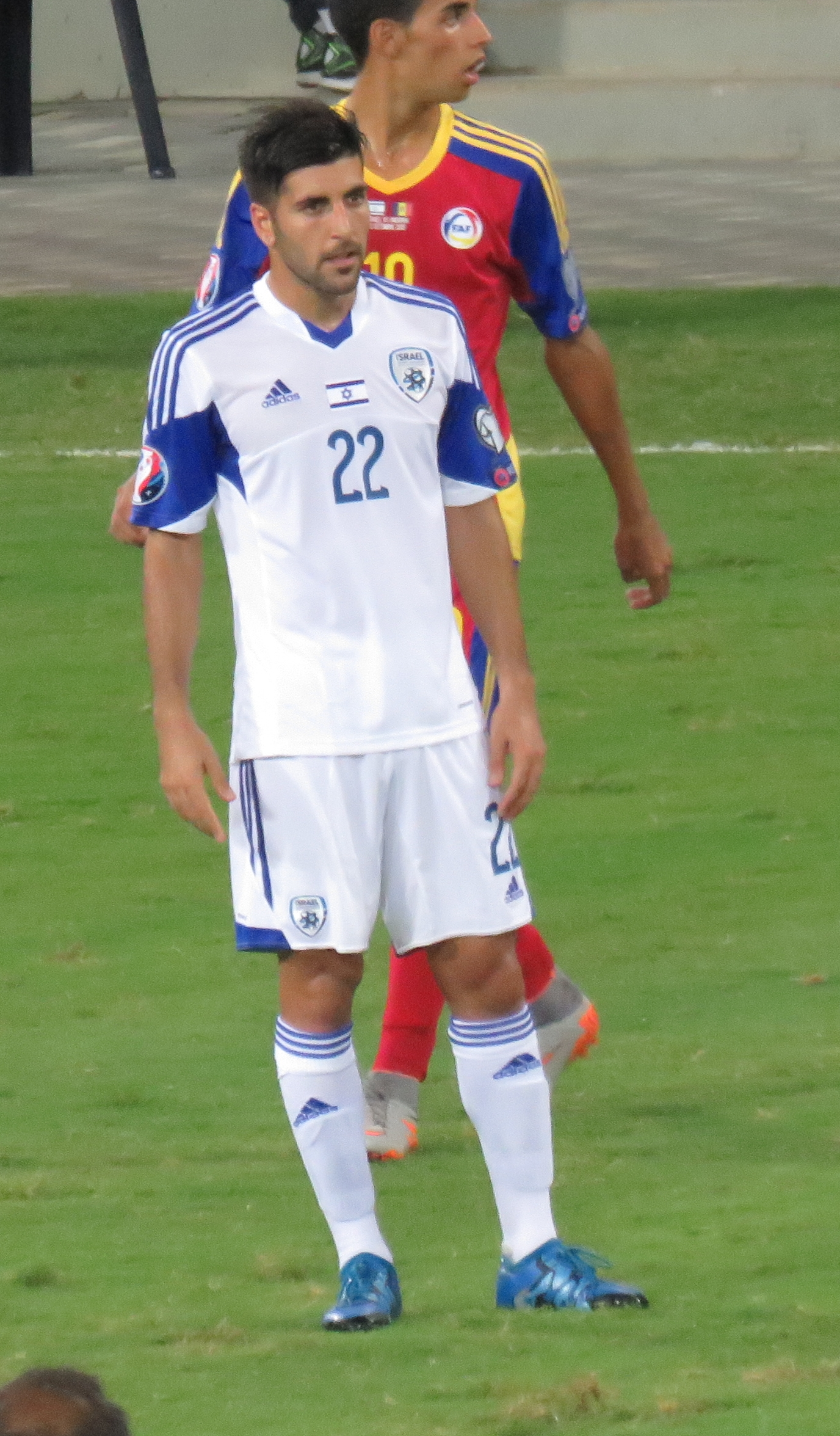 Israel vs. Andorra - September 3, 2015